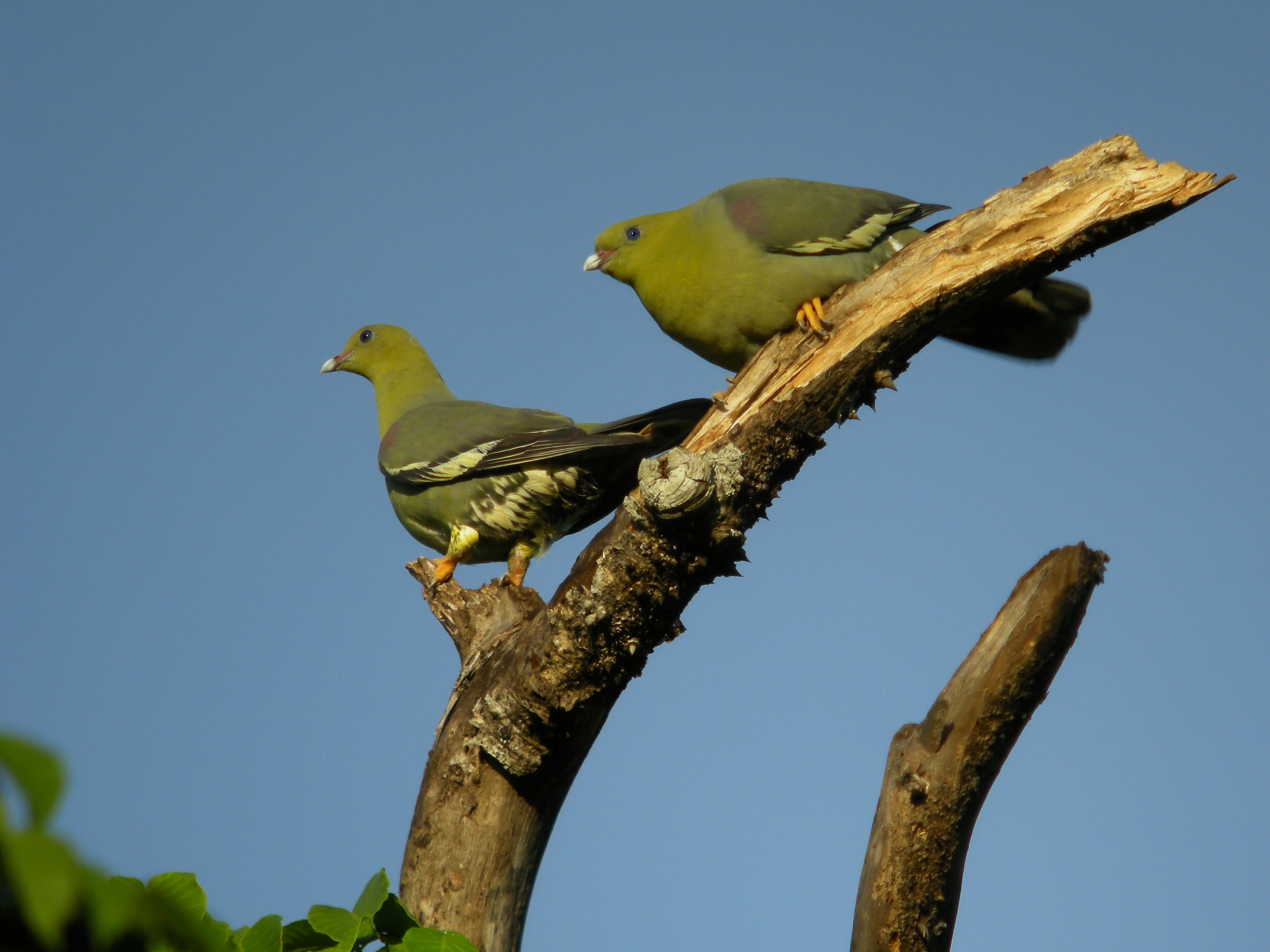 Two Madagascar Green-pigeons in Ankarafantsika National Park, Mahajanga Province, Madagascar.